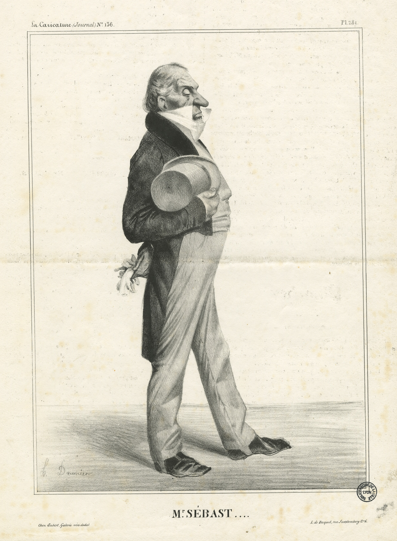 Horace Sébastiani (1772-1851), french marshall and statesman